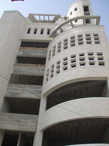 Dunia Trade Center building, under construction in Ramallah.